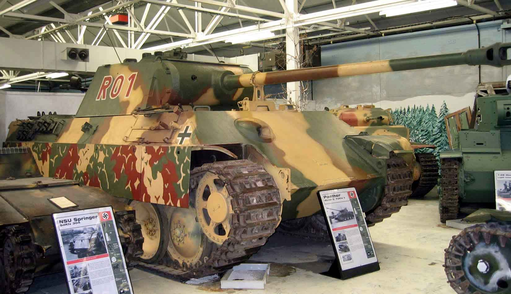 Panzerkampfwagen V (Panther Tank) at Bovington Tank Museum.